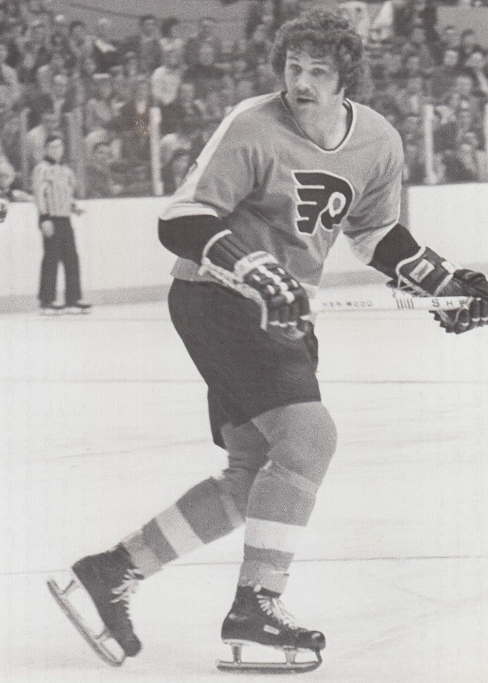 Dave Schultz playing for the Philadelphia Flyers during either the 1972–73 or 1973–74 season